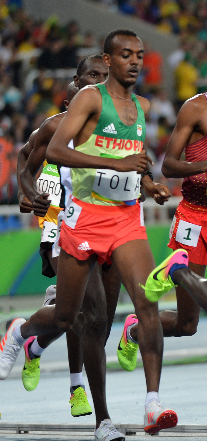 Tamirat Tola at the 2016 Rio Olympic Games in Rio de Janeiro.